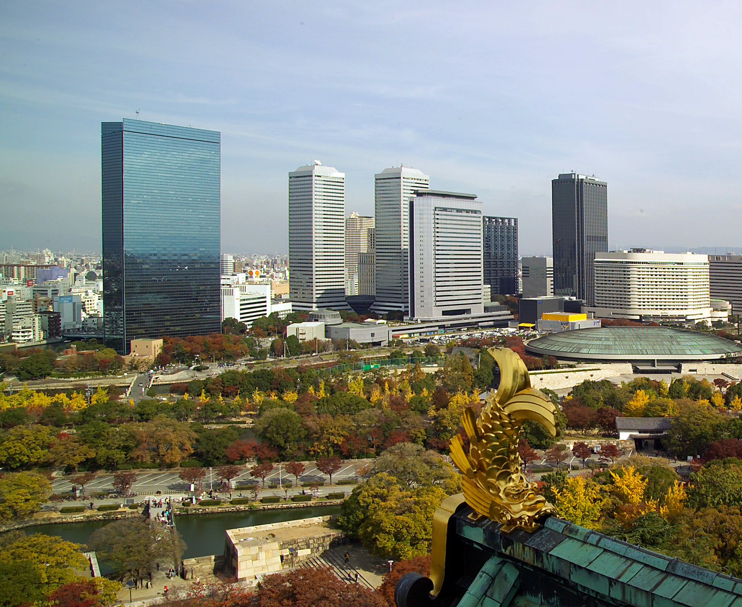 This photograph shows the city of Osaka, Japan, from Osaka Castle. Osaka-jo Hall is the dome in the foreground at right.